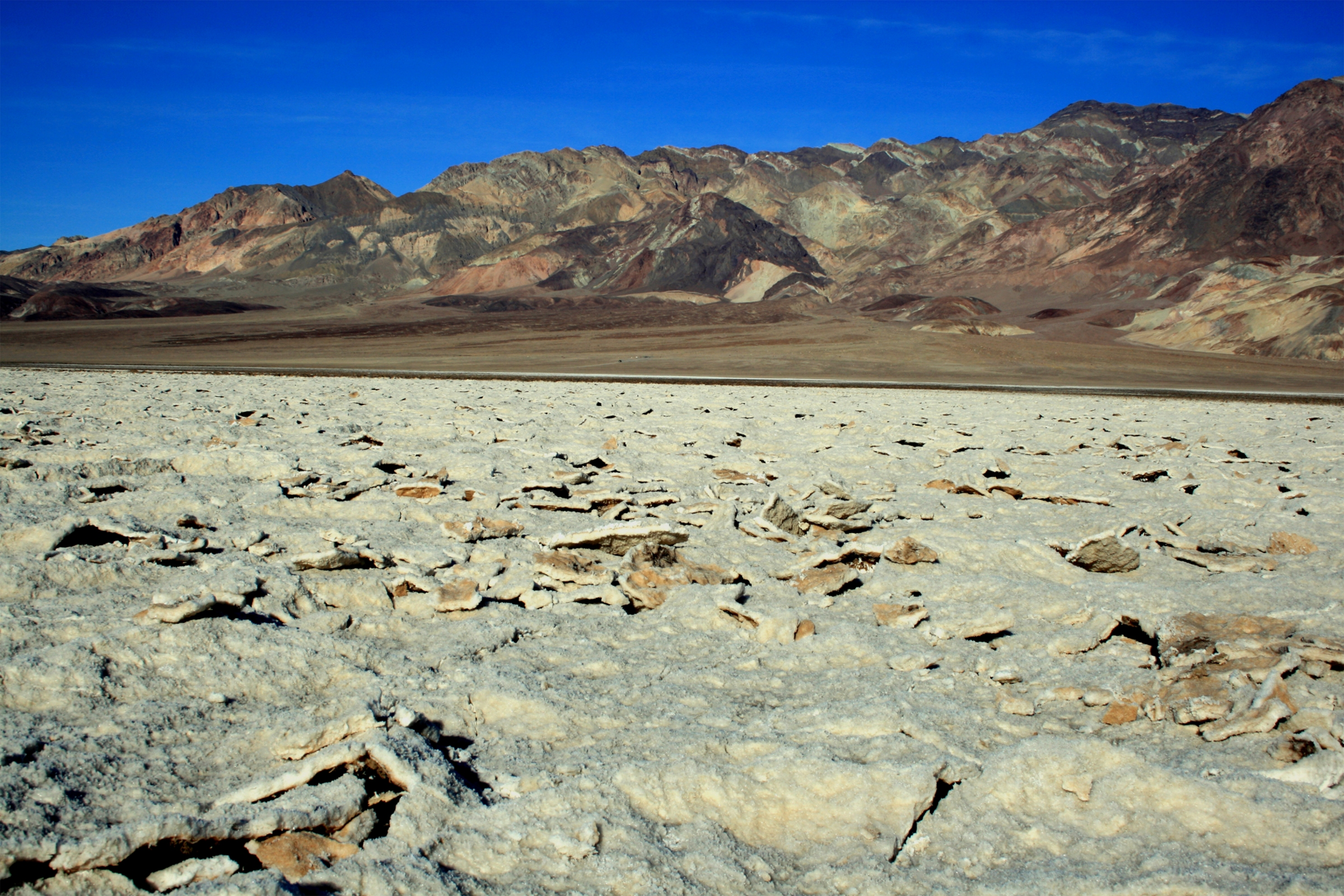 Devil's Golf Course in Death Valley National Park